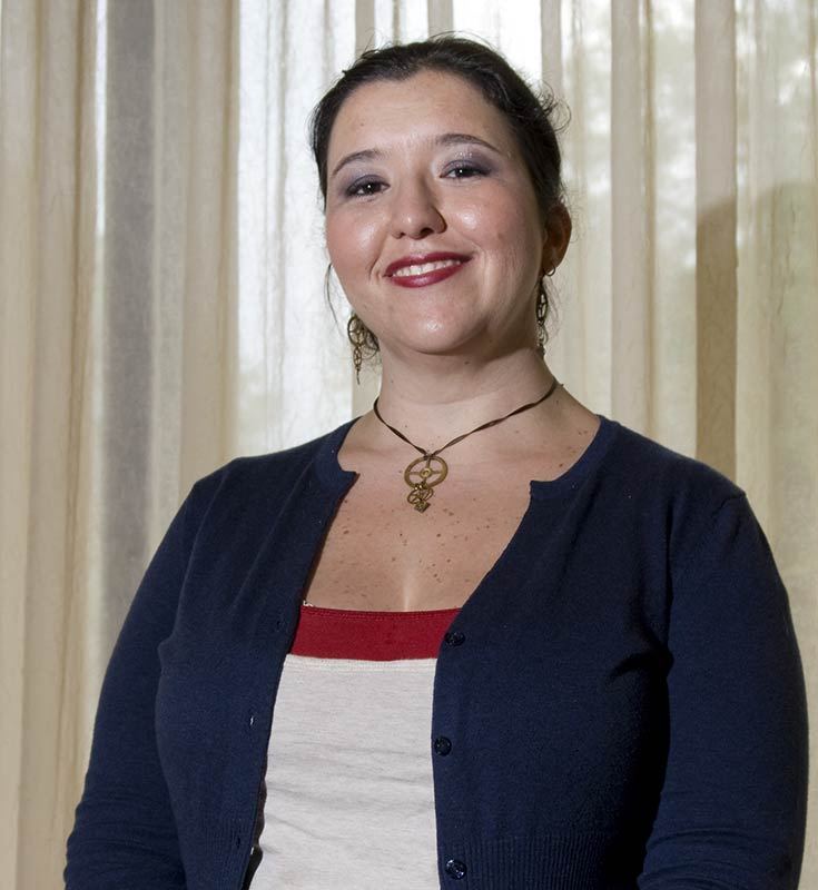 Professor Sara M. Harvey.